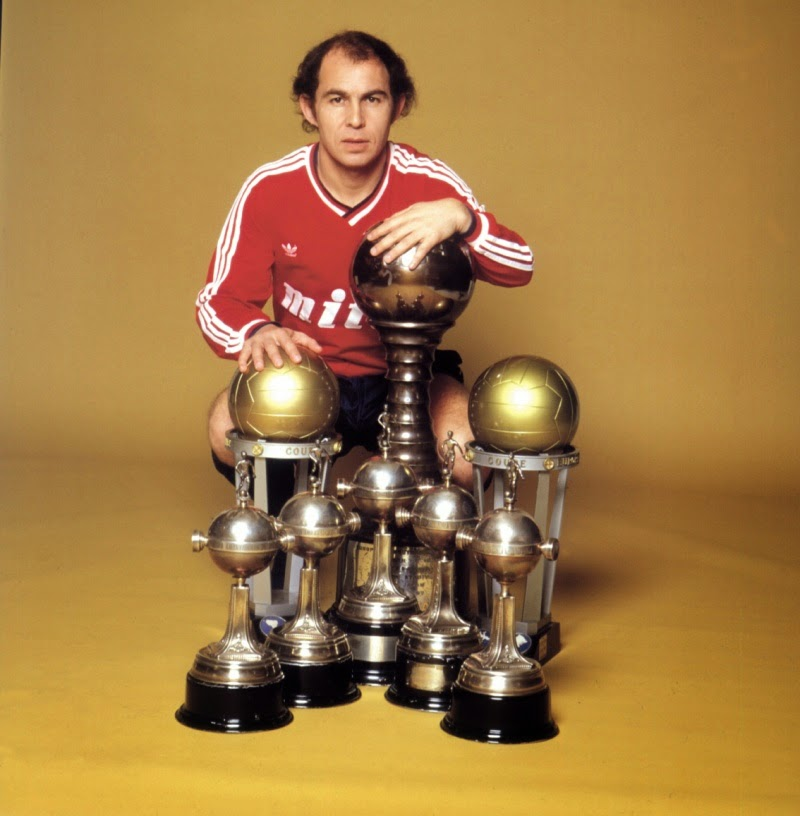 Ricardo Bochini posing with small replicas of the trophies won by his club, C.A. Independiente.